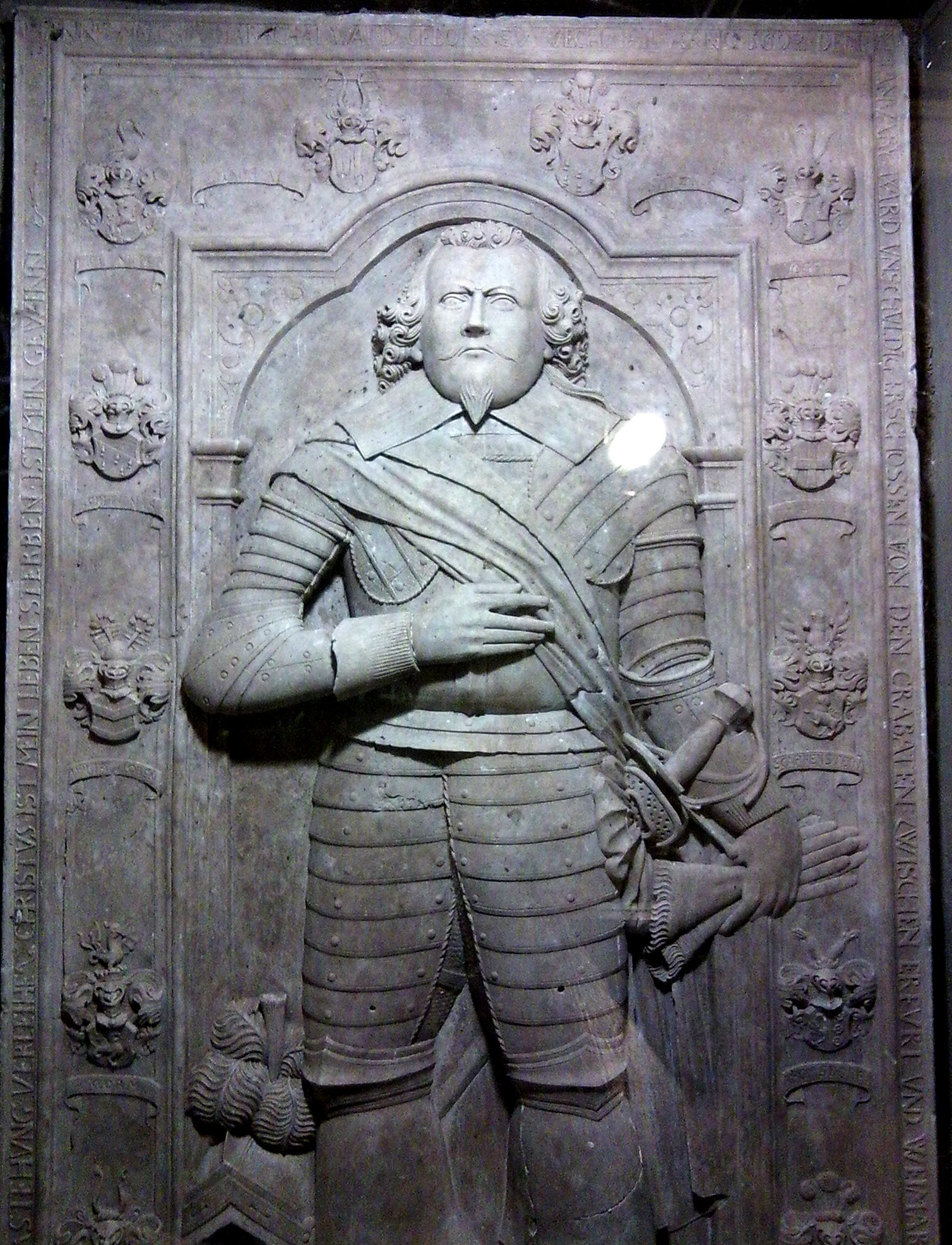 Tomb Slab Hans Melchior Marschalch